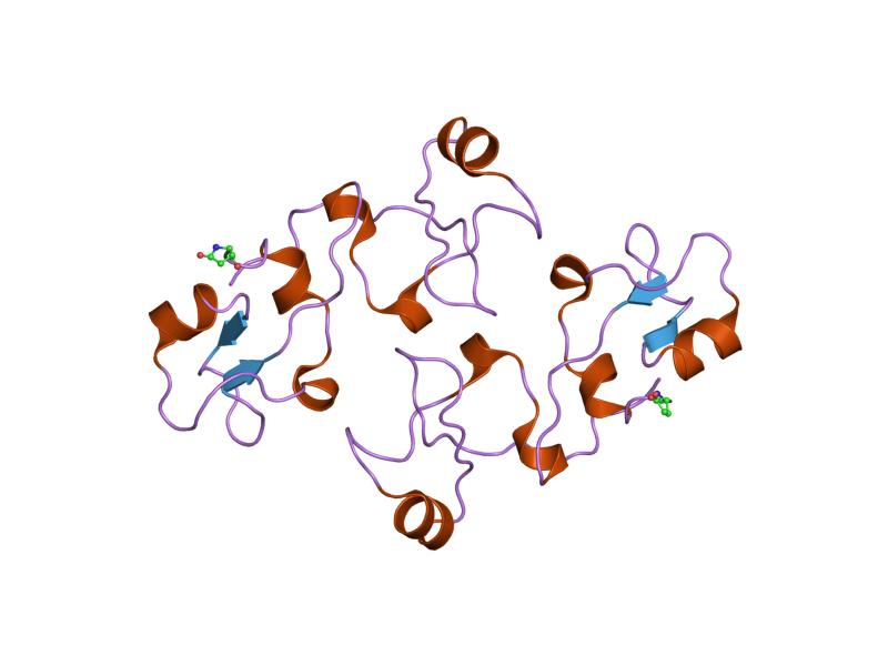 Cartoon representation of the molecular structure of protein registered with 1psp code.